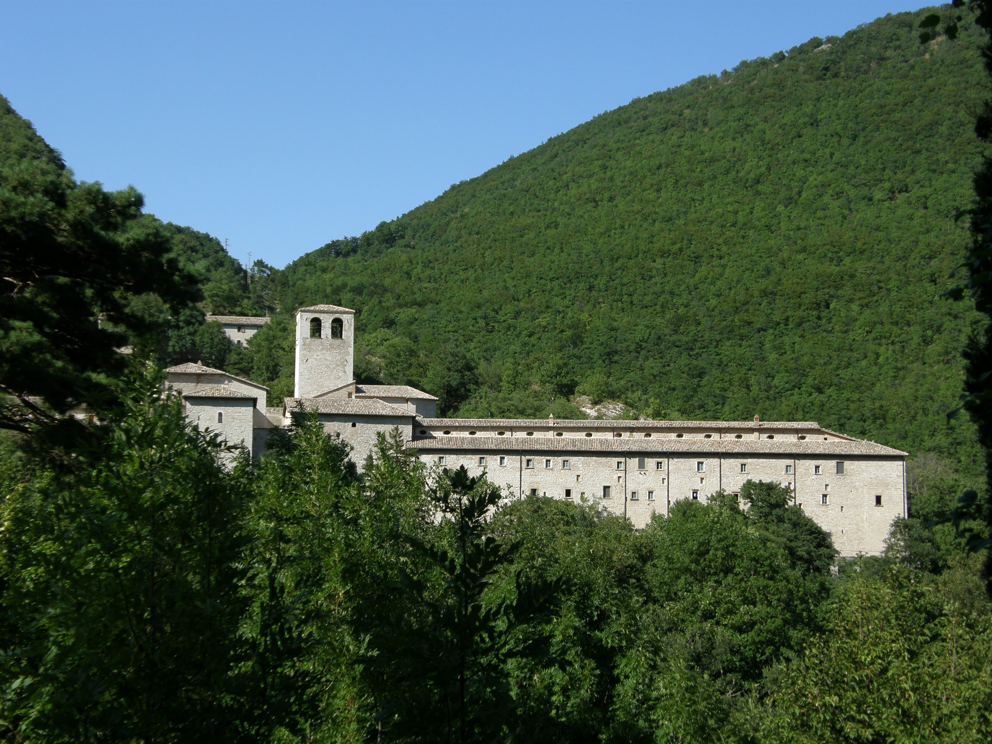 Serra Sant'Abbondio, Italy - Monastero di Fonte Avellana